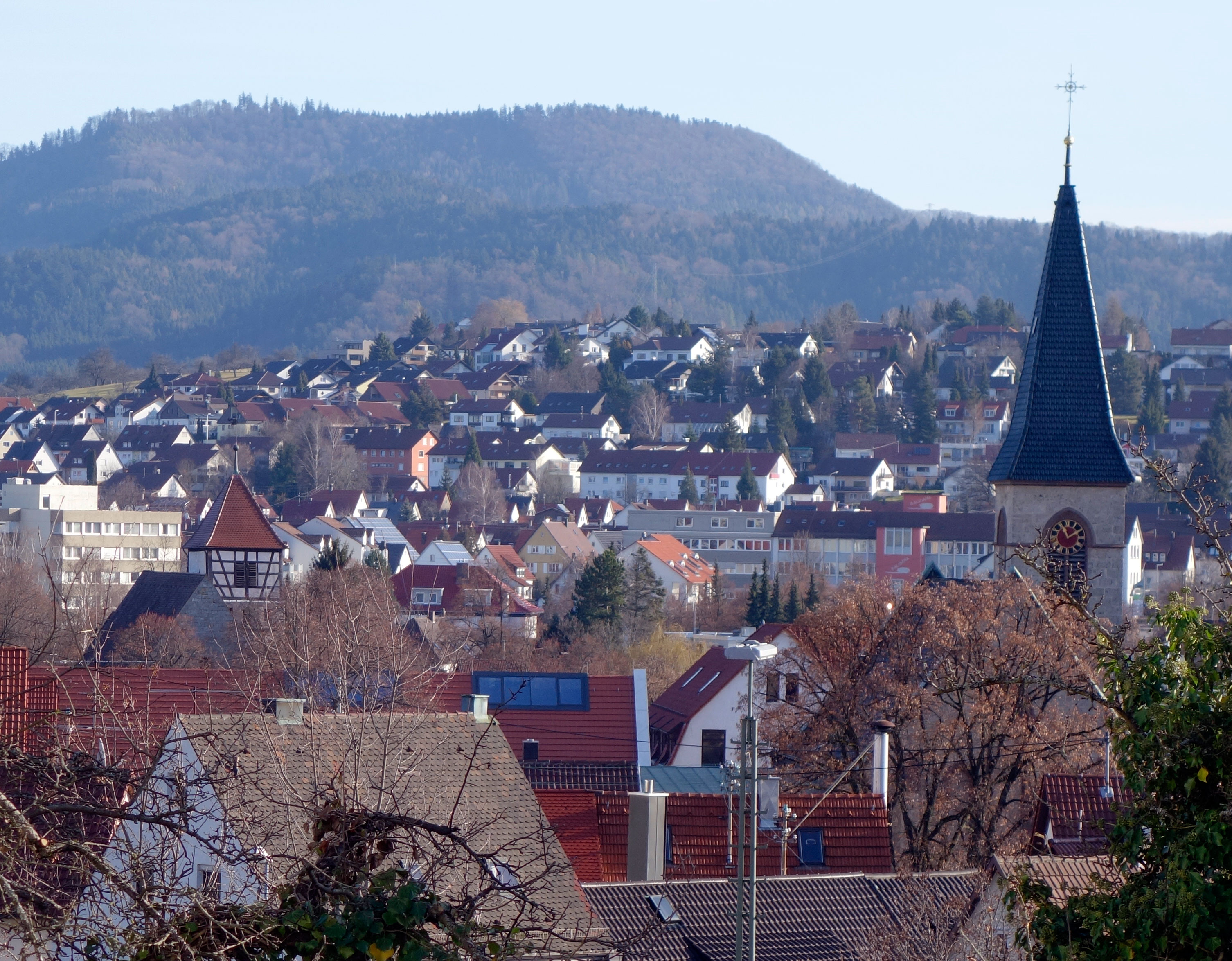 View of Balingen (Baden-Württemberg), Germany